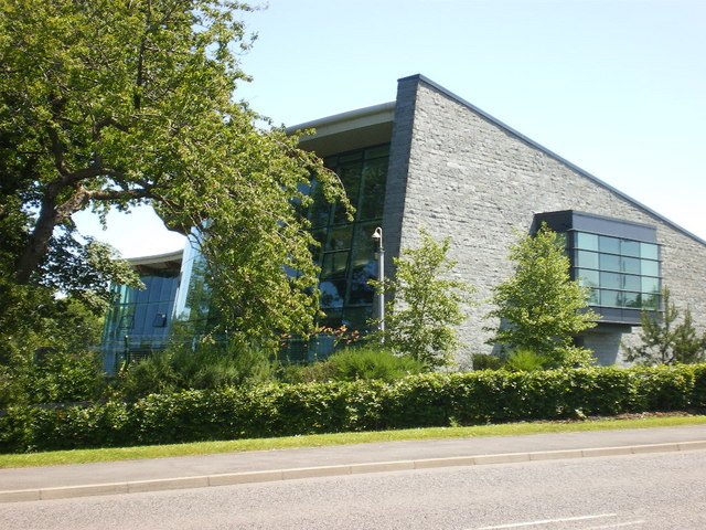 Booths Central Office Head office for the regional supermarket chain, Booths